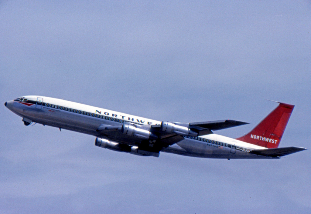 Northwest Airlines Boeing 707-351B N377US departing San Francisco International Airport in 1970